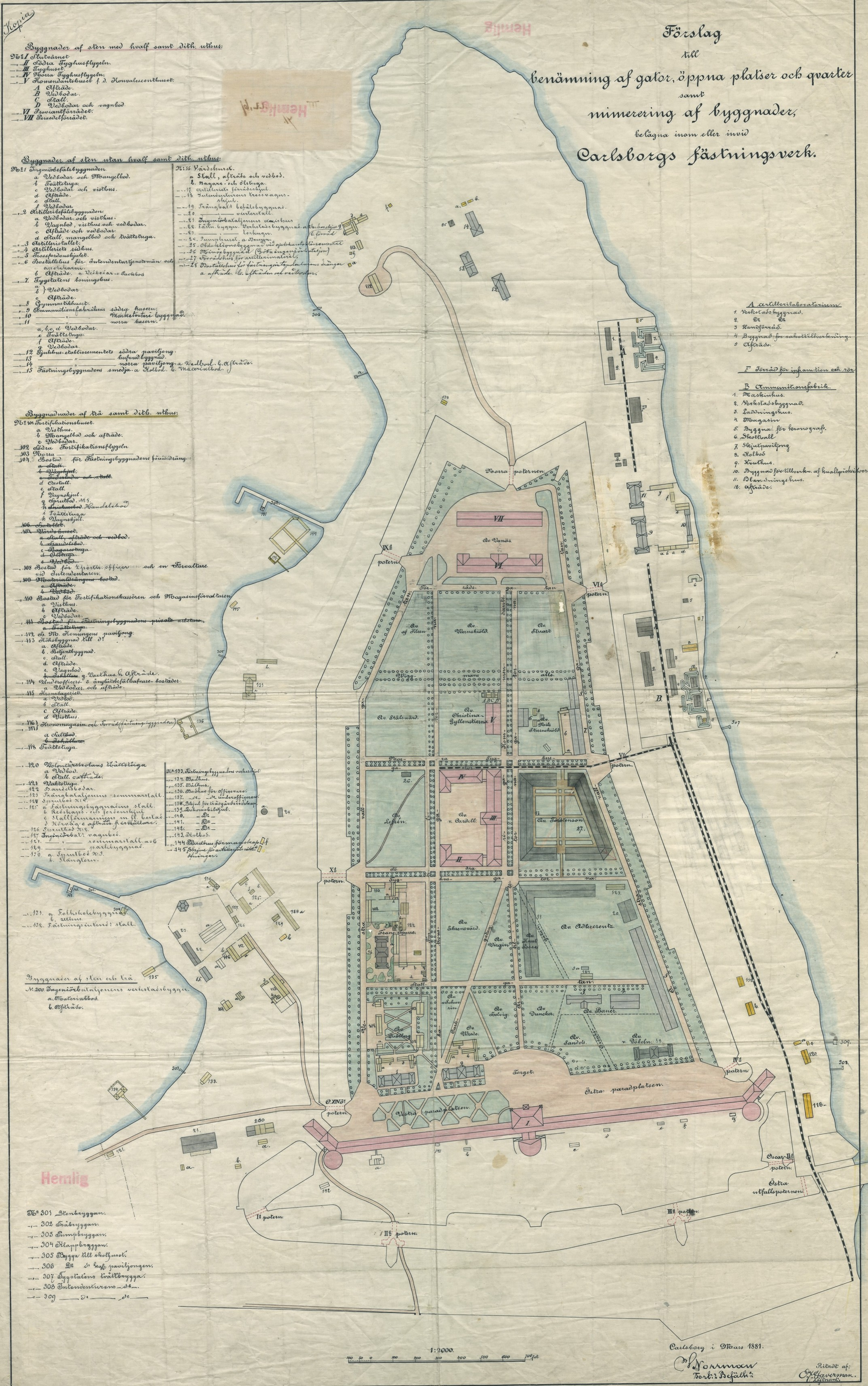 Declassified map from 1881 containing buildings in, and in close proximity of Karlsborg Fortress, Sweden.